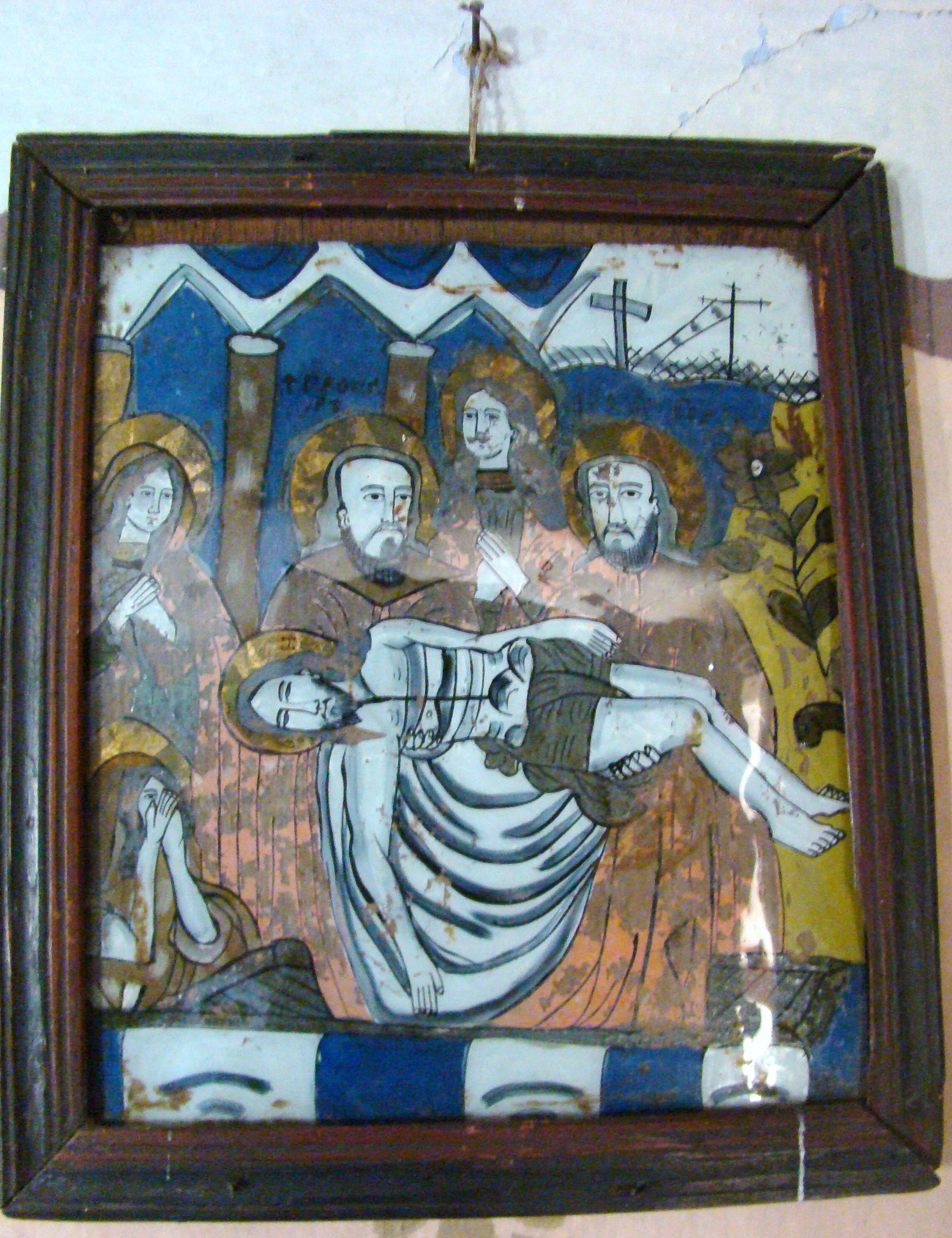 The wooden church in Săsăuș, Sibiu county, Romania